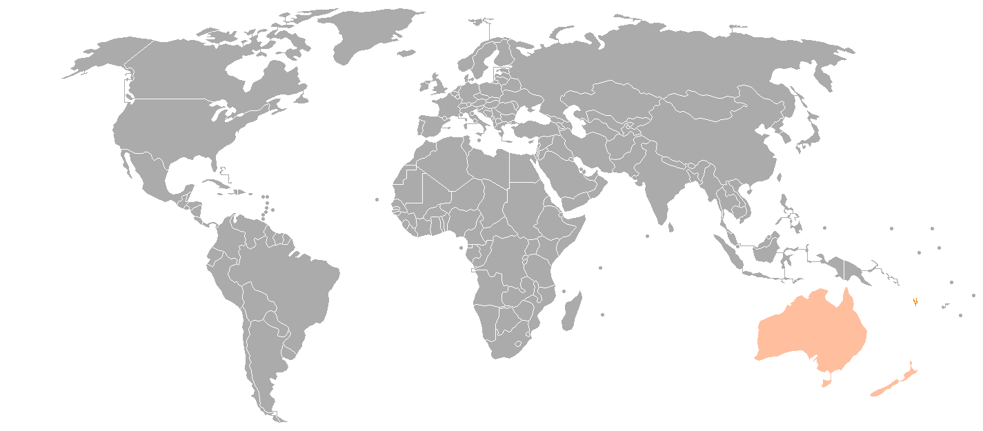 Countries where Fiji Hindi is spoken